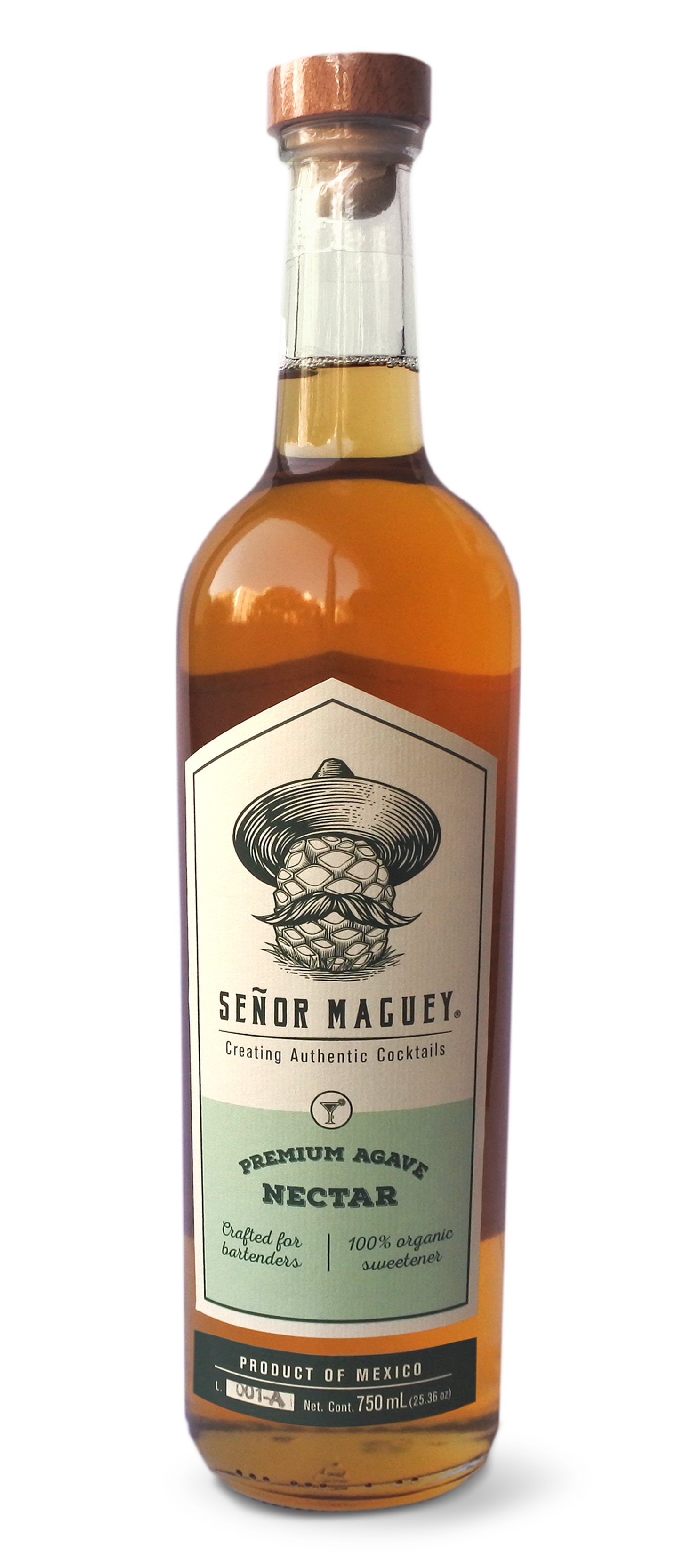 Señor Maguey - 100% natural and organic agave nectar. Great for cocktails, smoothies, coffee and more!